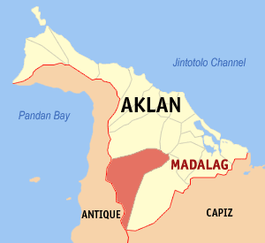 Map of Aklan showing the location of Madalag